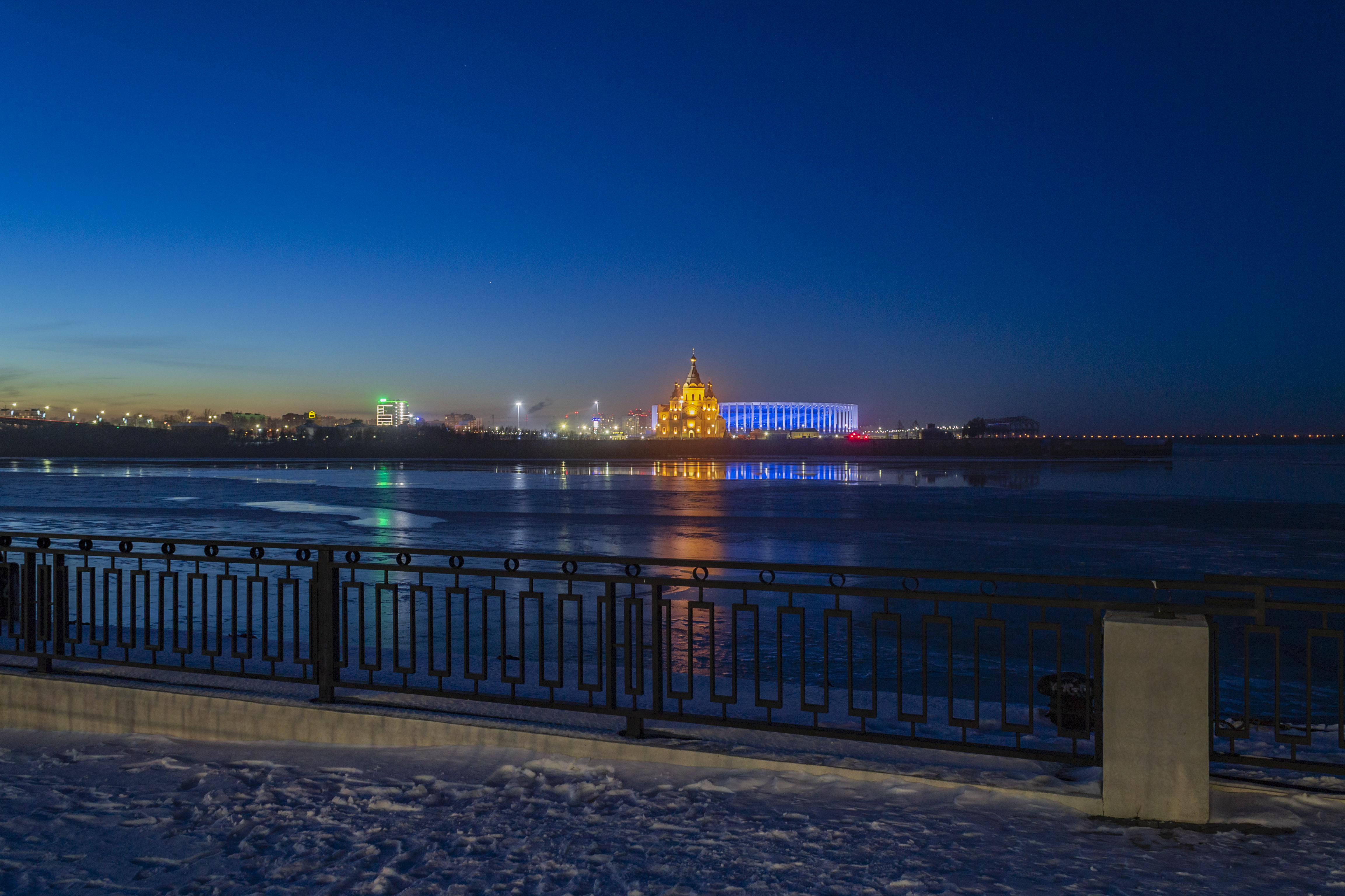 Winter view of the Spit of Nizhny Novgorod and the FIFA-stadium from Fedorovskogo Lower-Volga at night. Nizhny Novgorod, Russia